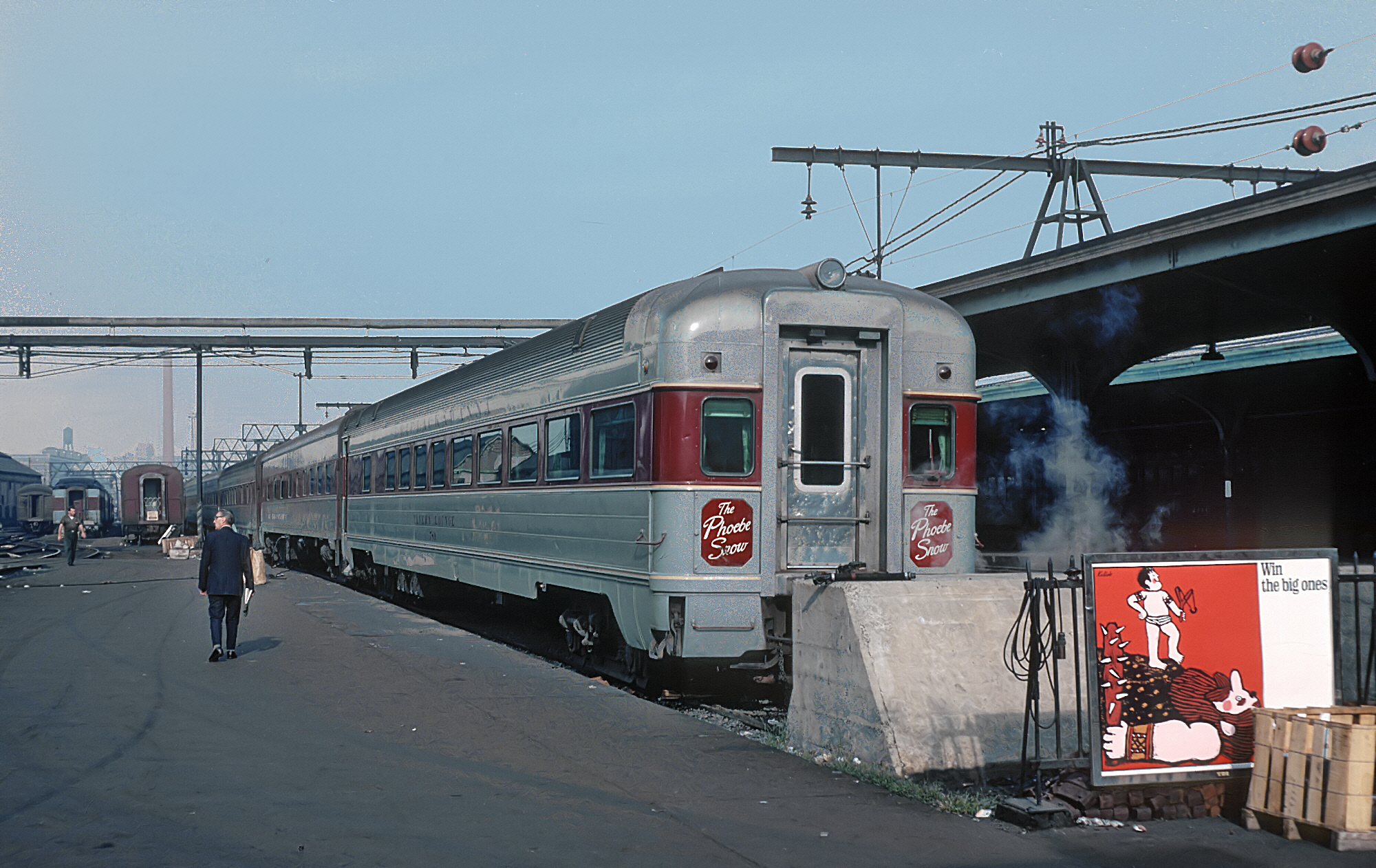 The Phoebe Snow on a service track on the southside of the terminal building A Roger Puta Photograph